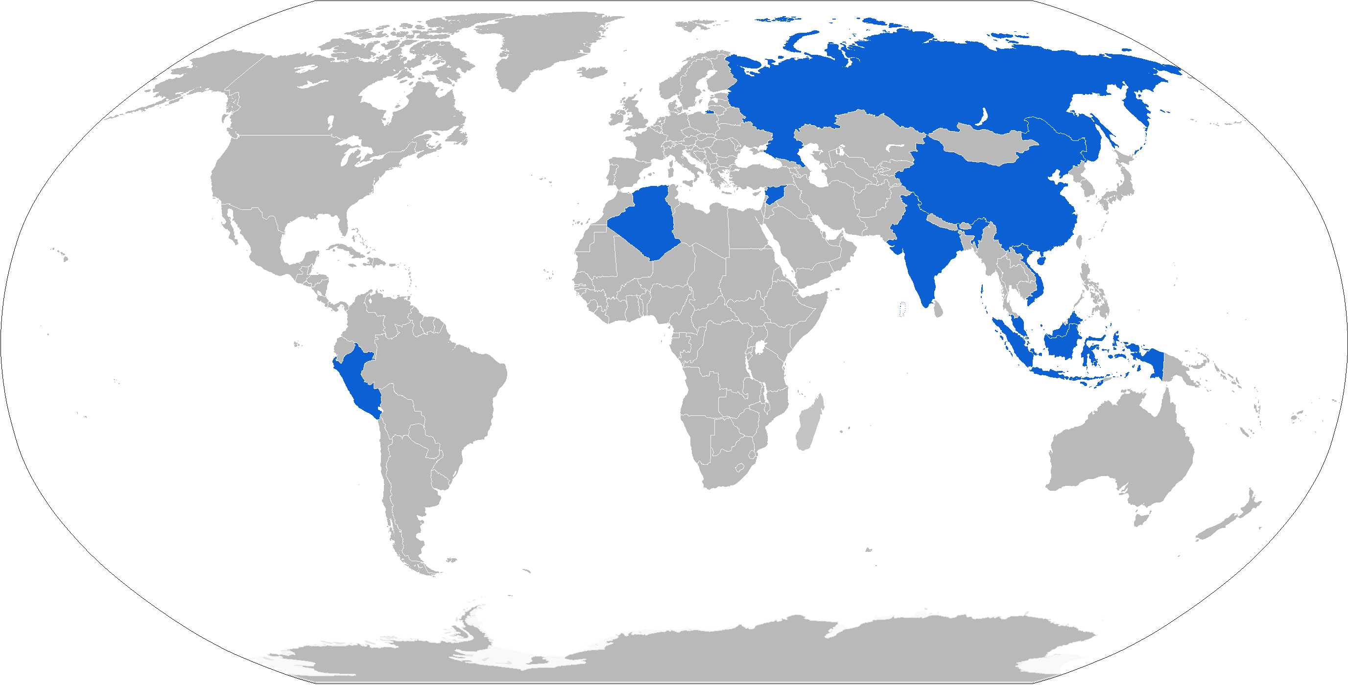 Map with R-77 operators in blue